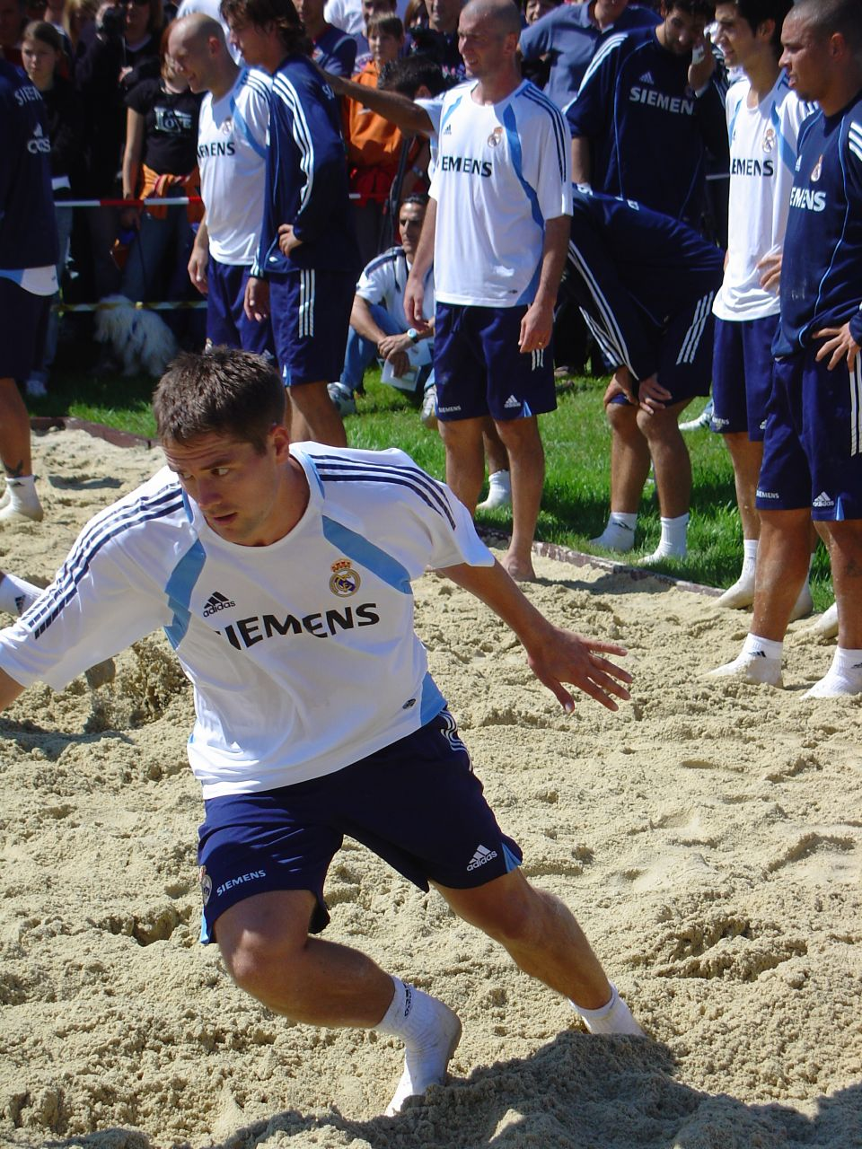 Micael Owen playing for Real Madrid at an Irdning (Styria, Austria) training camp. Full version.